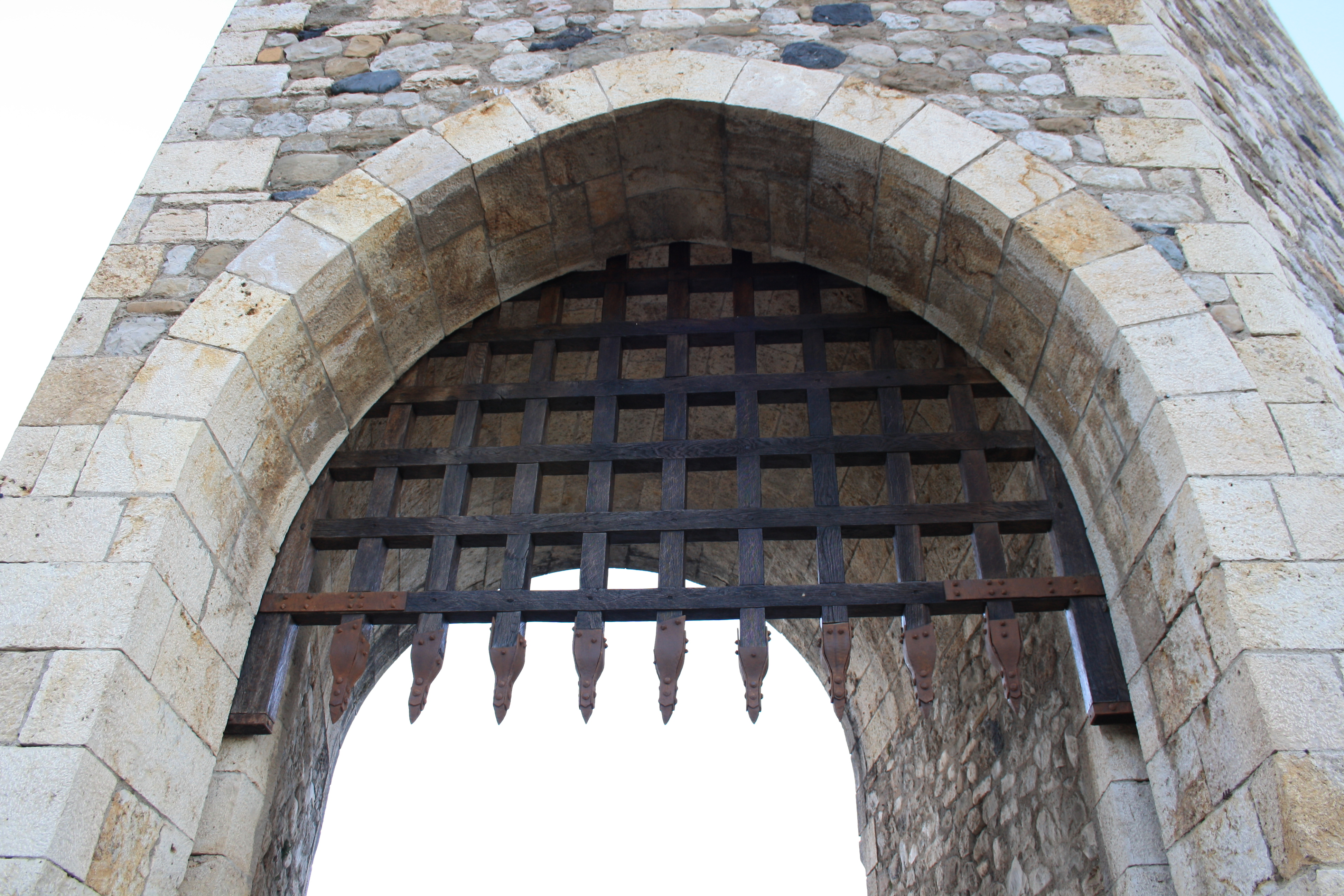 Detail of the mid-bridge guard tower